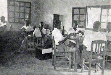 A club for Congolese men, circa 1943